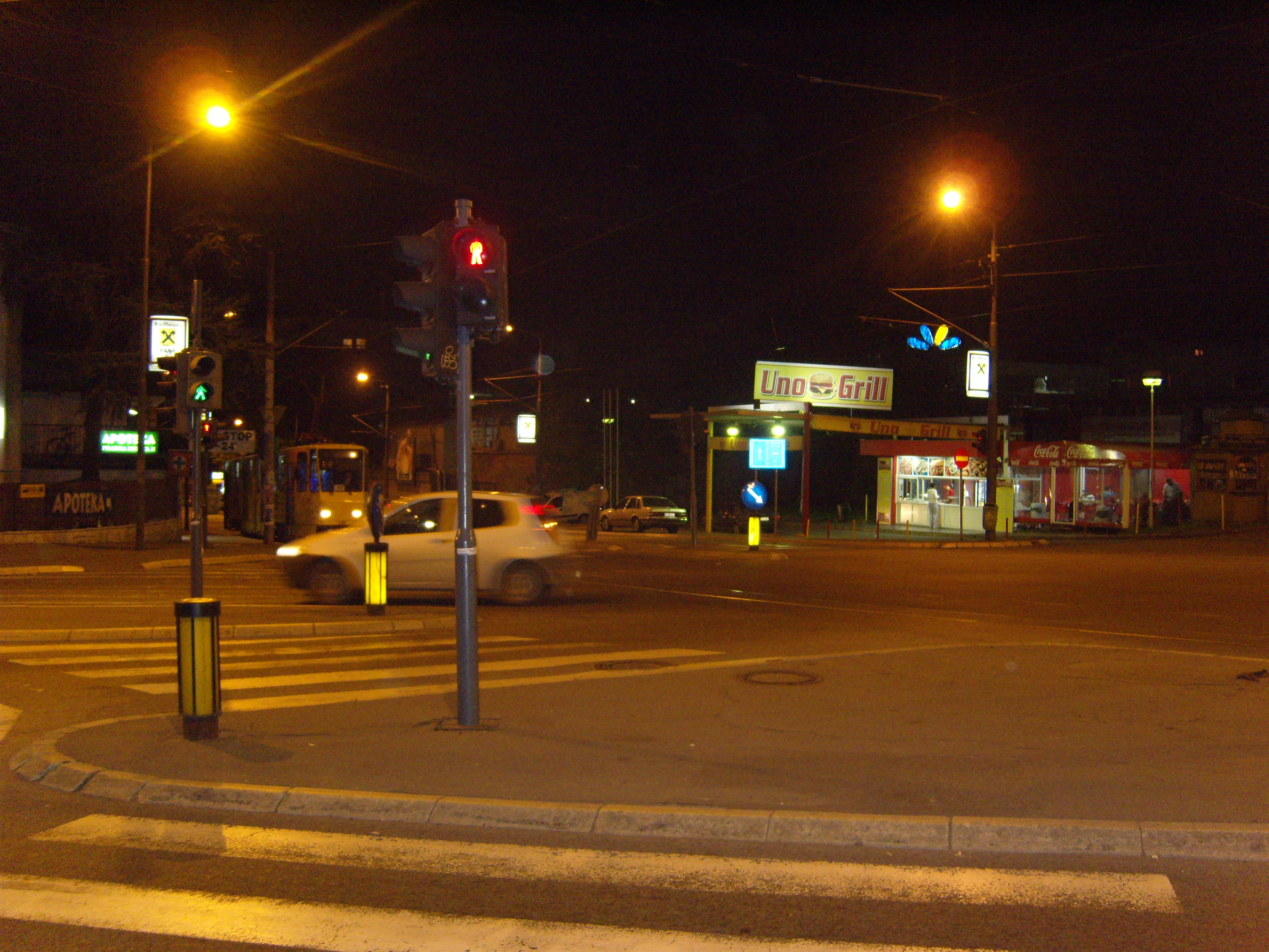 Banovo Brdo at night 5 (2008-04-14)